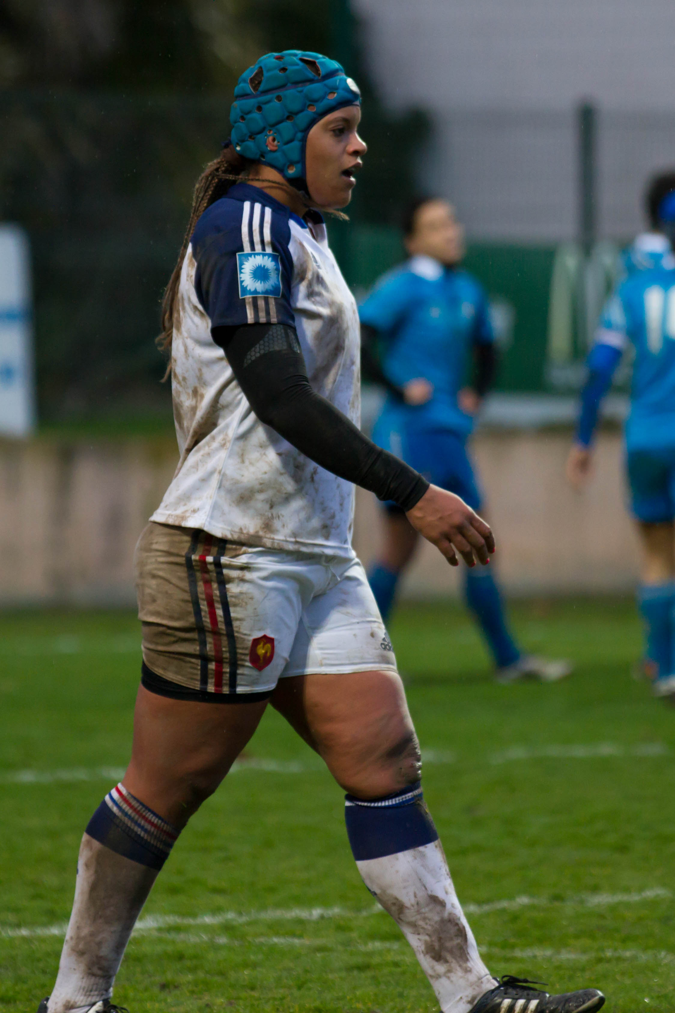 2014 Women's Six Nations Championship — 9 February 2014, Stade Ernest Argeles. Match between: France women's national rugby union team — Italy women's national rugby union team